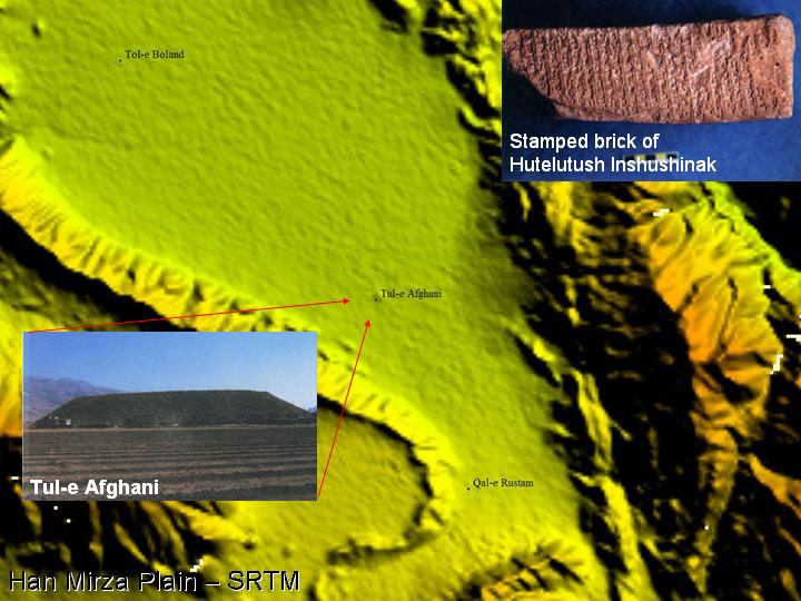 Ghale Afghan, Historical Place, Khanmirza plain by Cameron Petrie